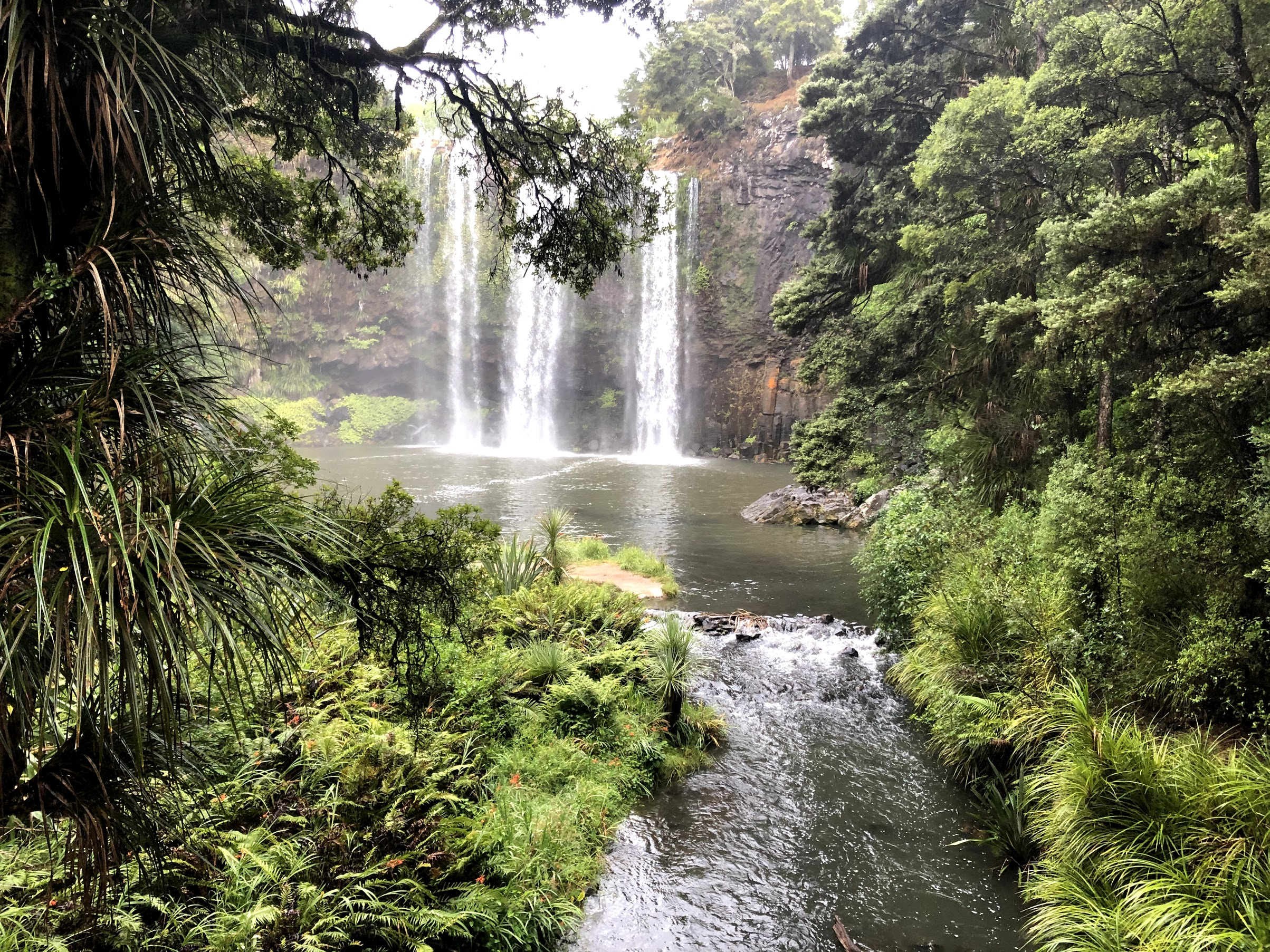 d